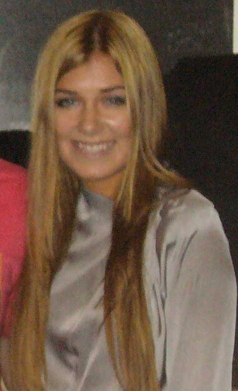 Clara Hagman at a fan meeting with Ace of Base in Toronto, Canada.